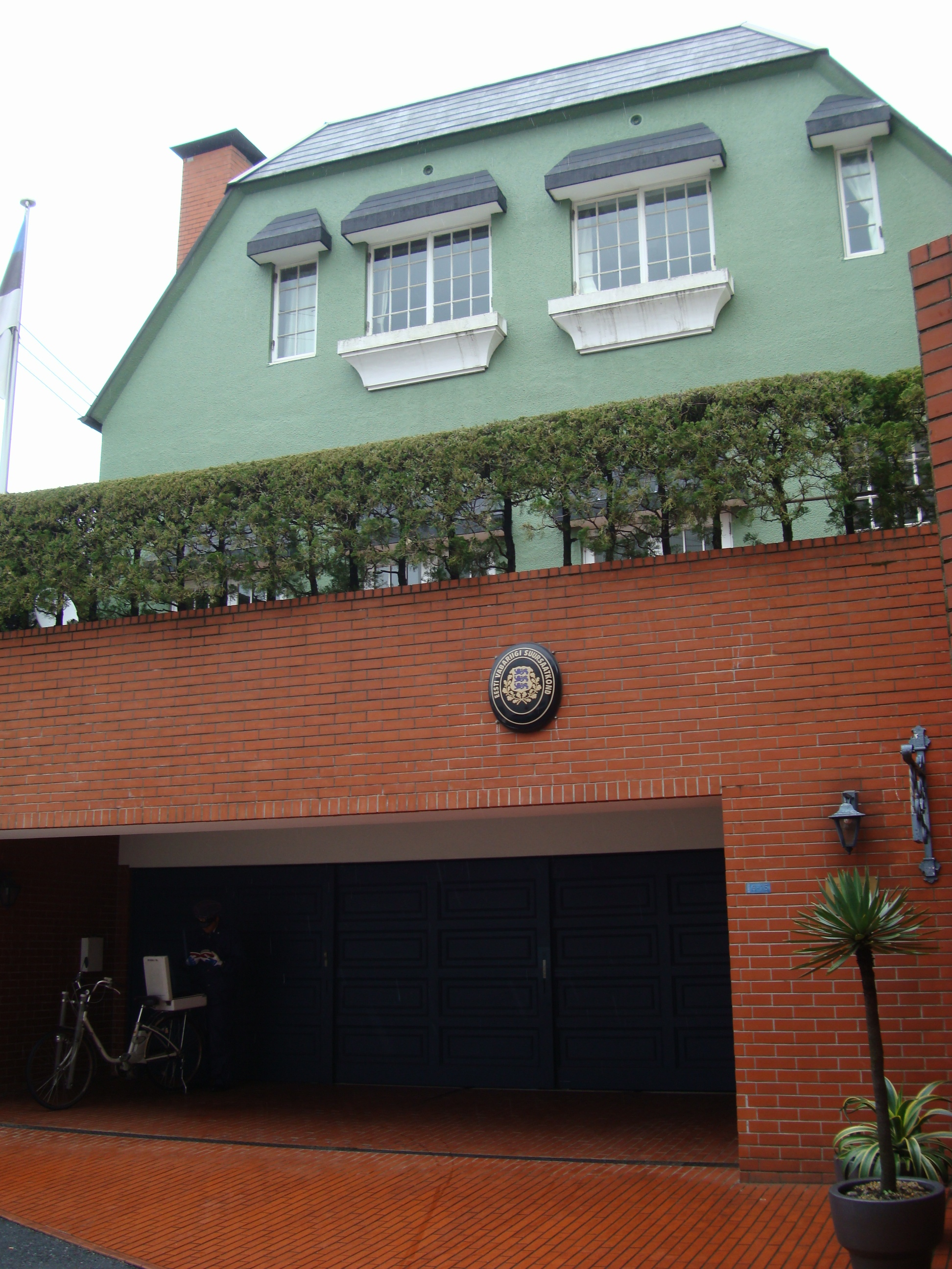 Embassy of Estonia in Japan